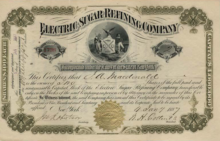 Stock Certificate from the Electric Sugar Refining Company (1884-1888) signed by its president, William H. Cotteril on Jan. 4, 1887. Also signed by the company secretary, James Robertson. J. A. Macdonald is the unfortunate man who spent $200 on this stock.